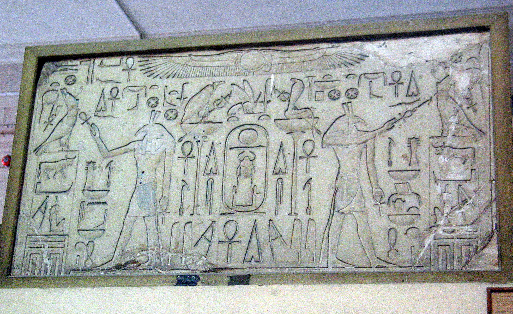 Stela of Tuthmosis I from Kom Bilal (near Deir el-Ballas). Cairo, Egyptian Museum, main floor, room 12, JE 31881